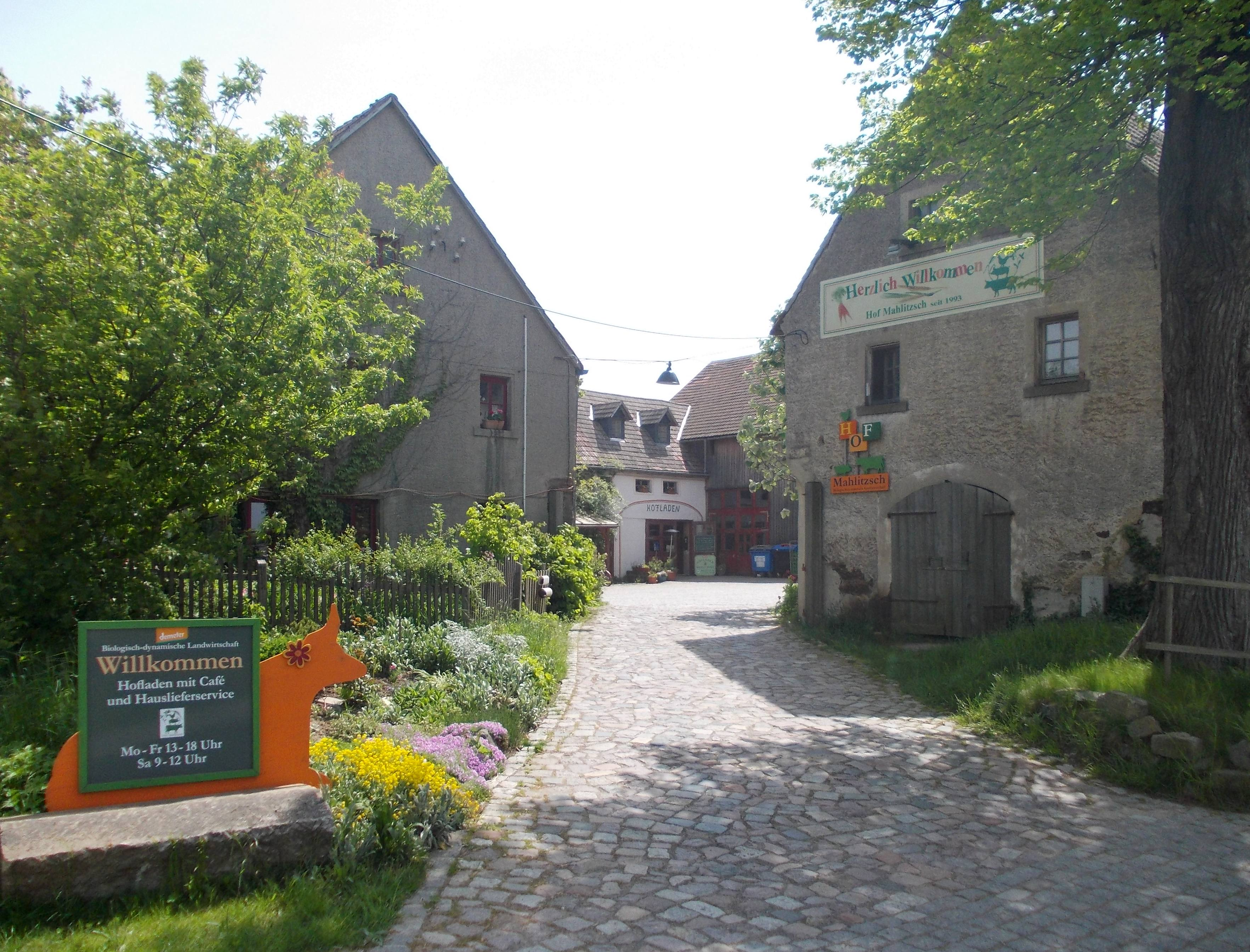 Hof Mahlitzsch farm (Nossen, Meissen district, Saxony)